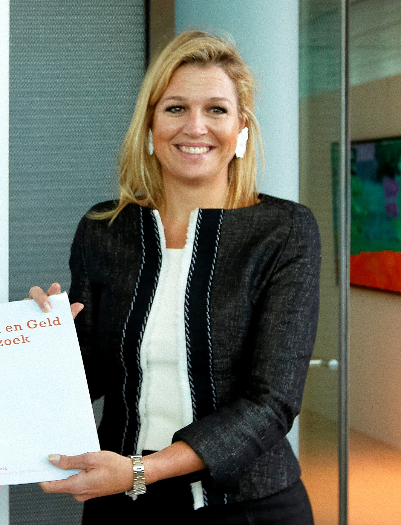 Princess Maxima of the Netherlands in 2011.